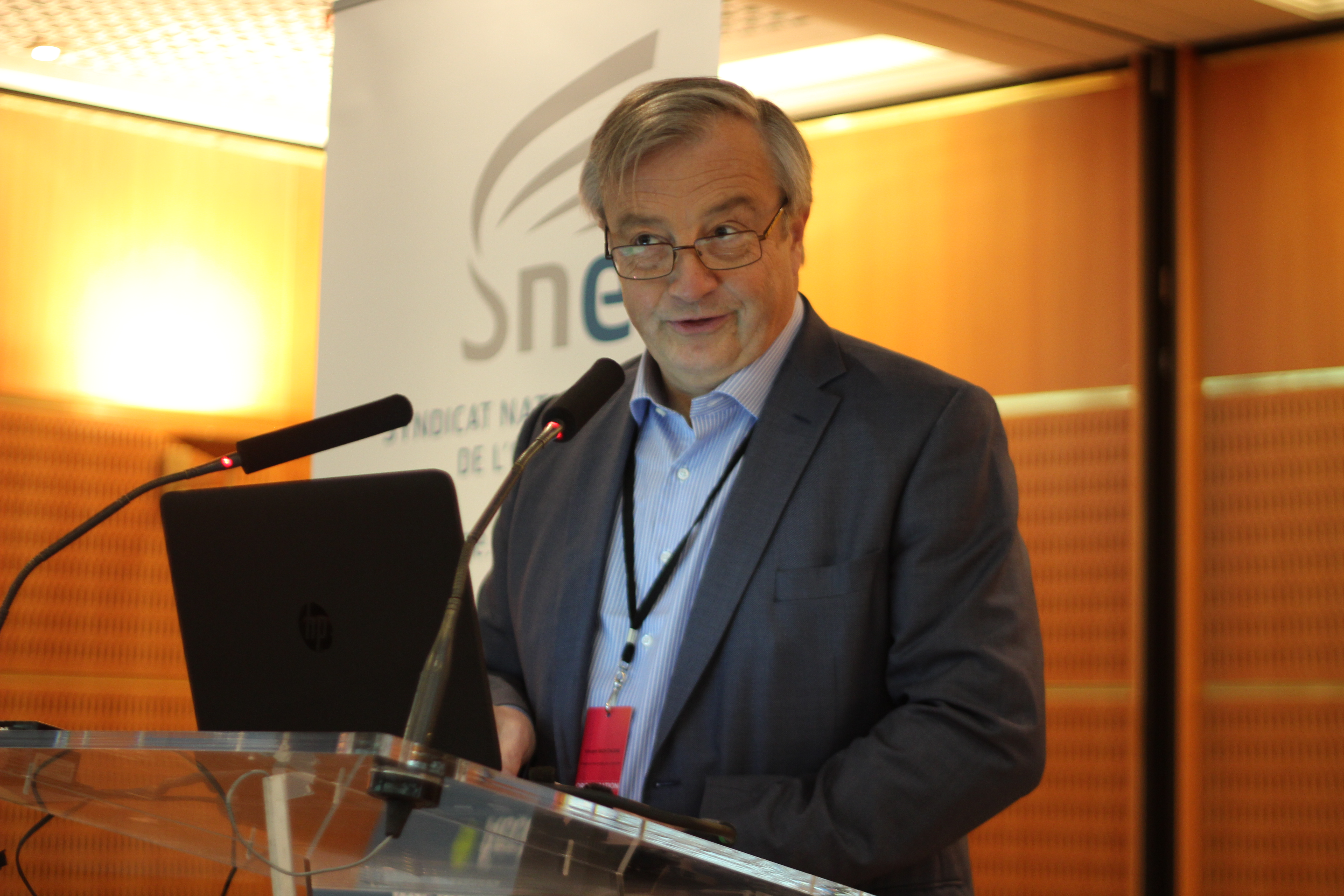 2015 Paris Book Fair, from 20 to 23 March 2015, Paris expo Porte de Versailles.